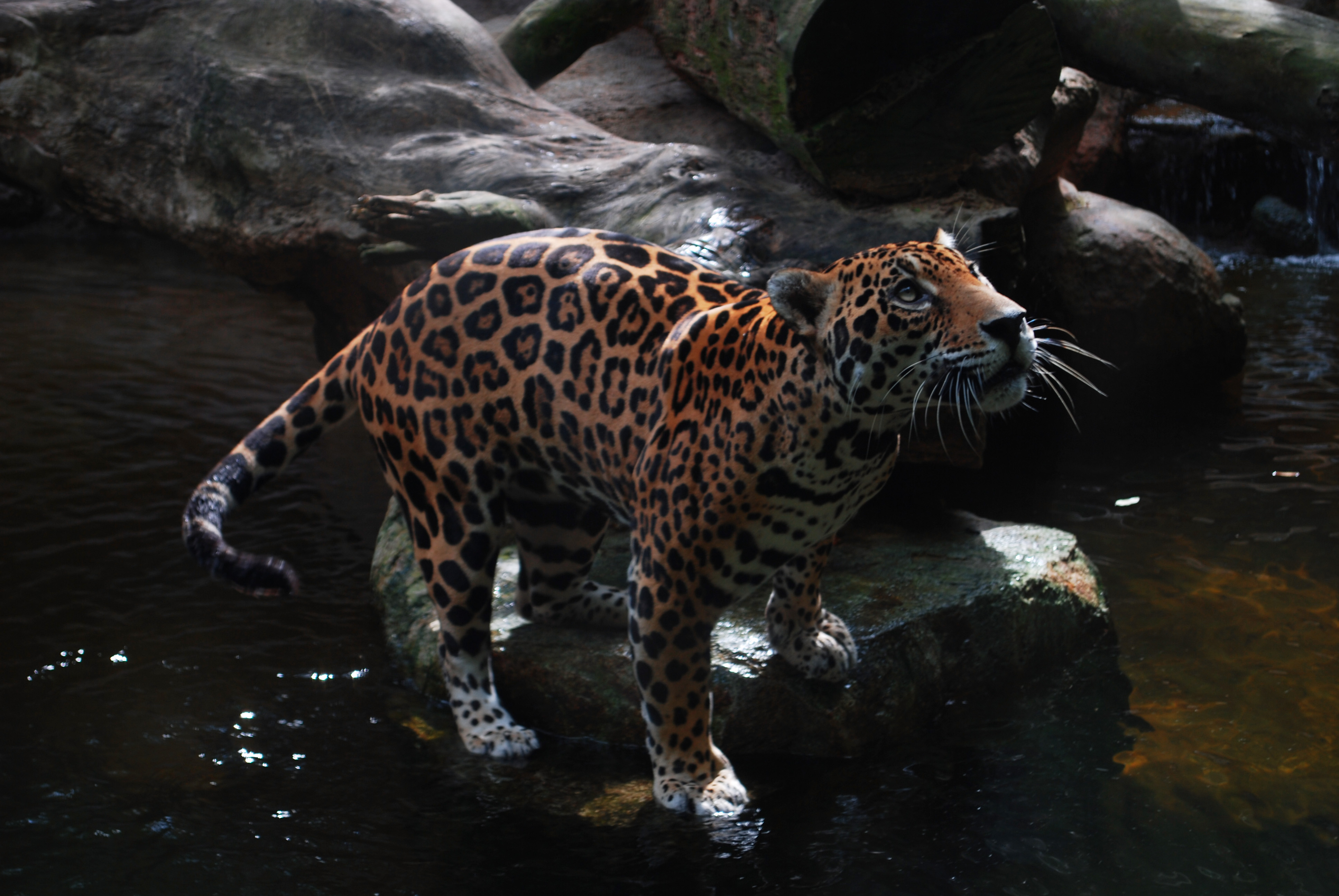 Jaguar, Singapore zoo